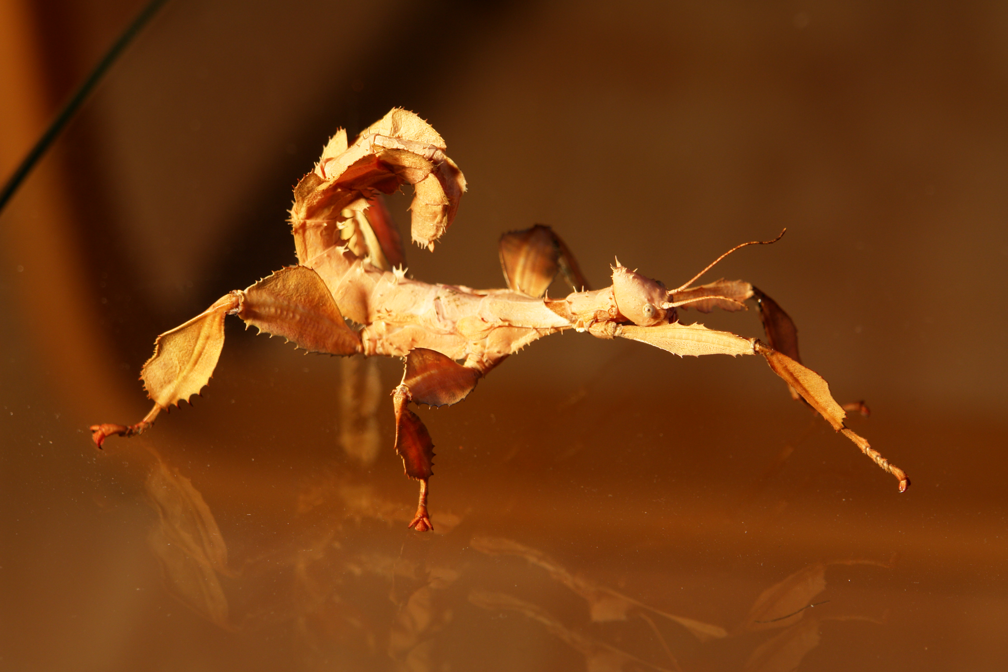 Extatosoma tiaratum, Insect, female, after 4th molt